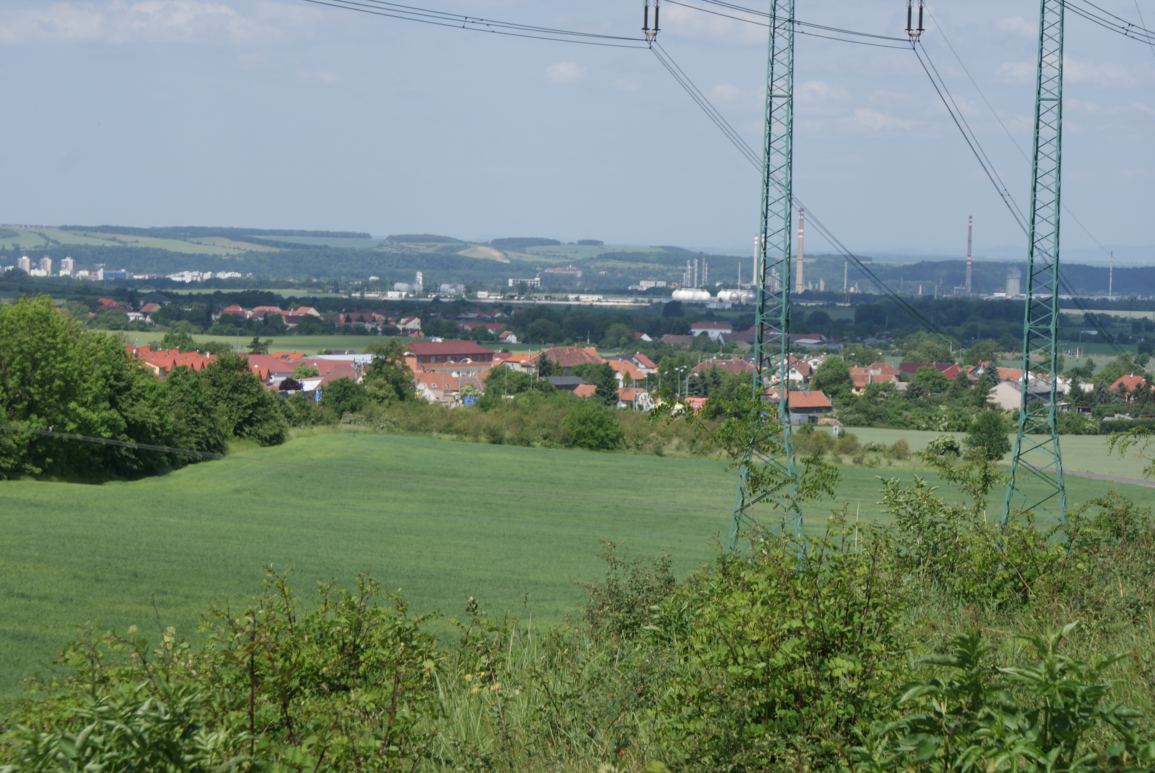 Postřižín, a village in Mělník district, Czech Republic, general view.